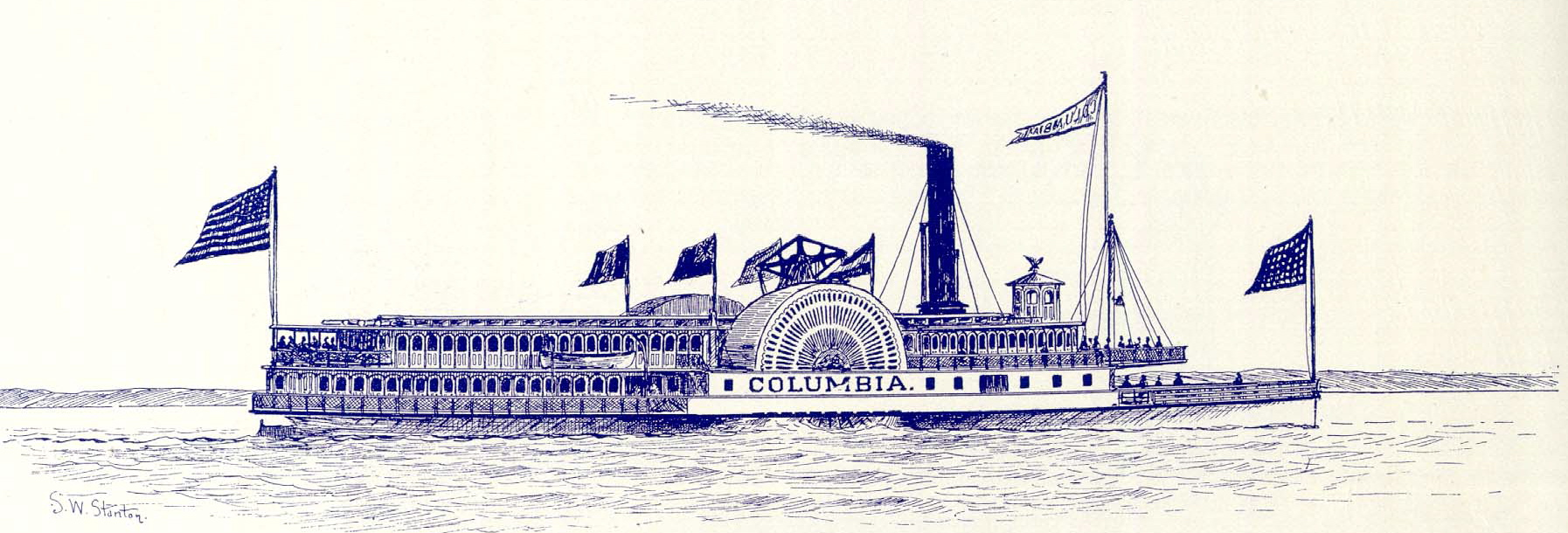 Columbia, Delaware River sidewheel steamer built 1876.